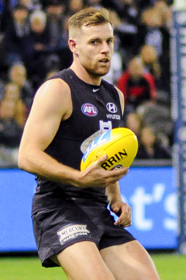 Sam Docherty during the AFL round twelve match between Carlton and Greater Western Sydney on 11 June 2017 at Etihad Stadium in Melbourne, Victoria.